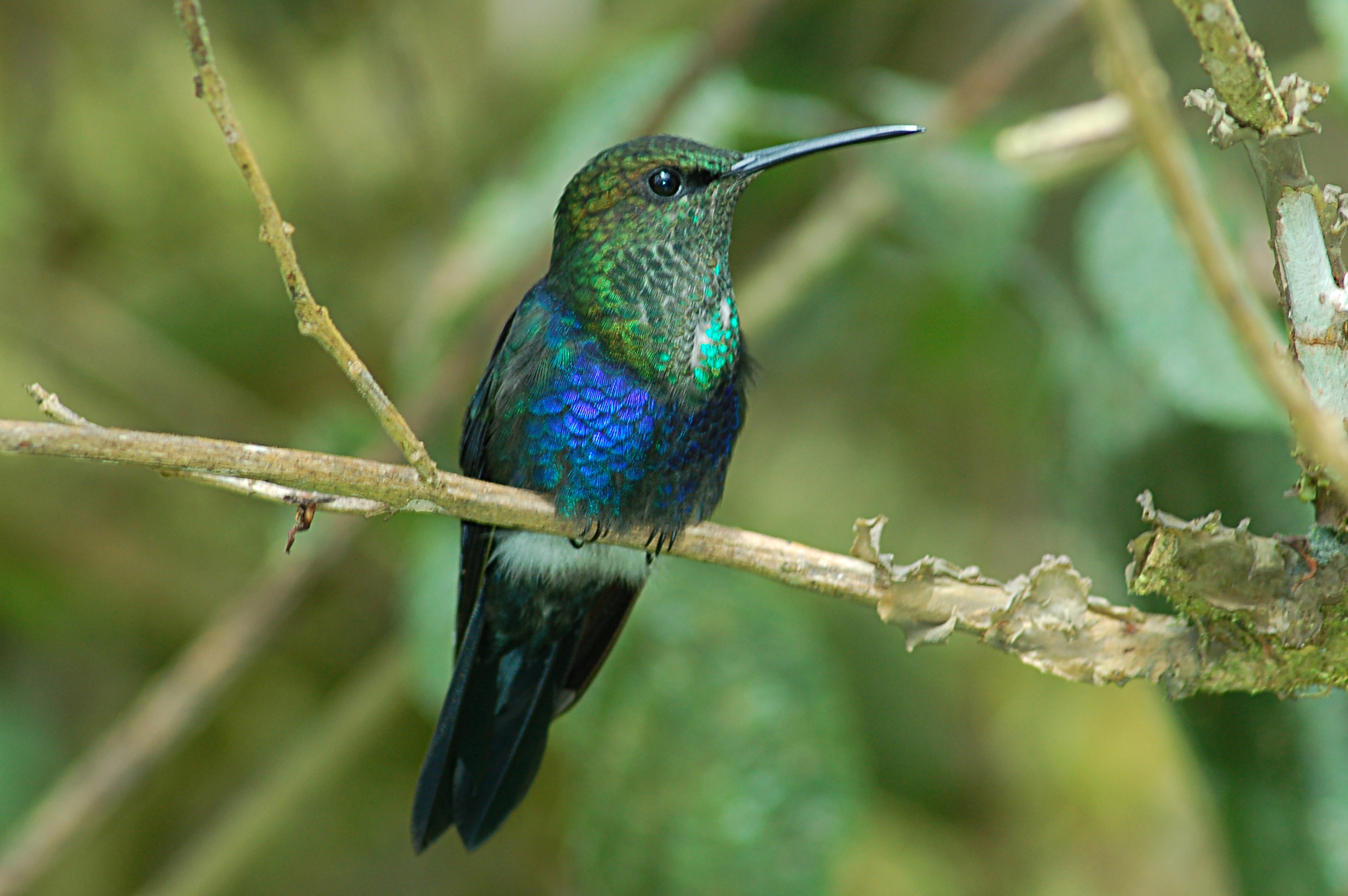 Fork-tailed Woodnymph (Thalurania furcata) - 14 June 2015 - Wildsumaco Lodge, Napo Province, Ecuador